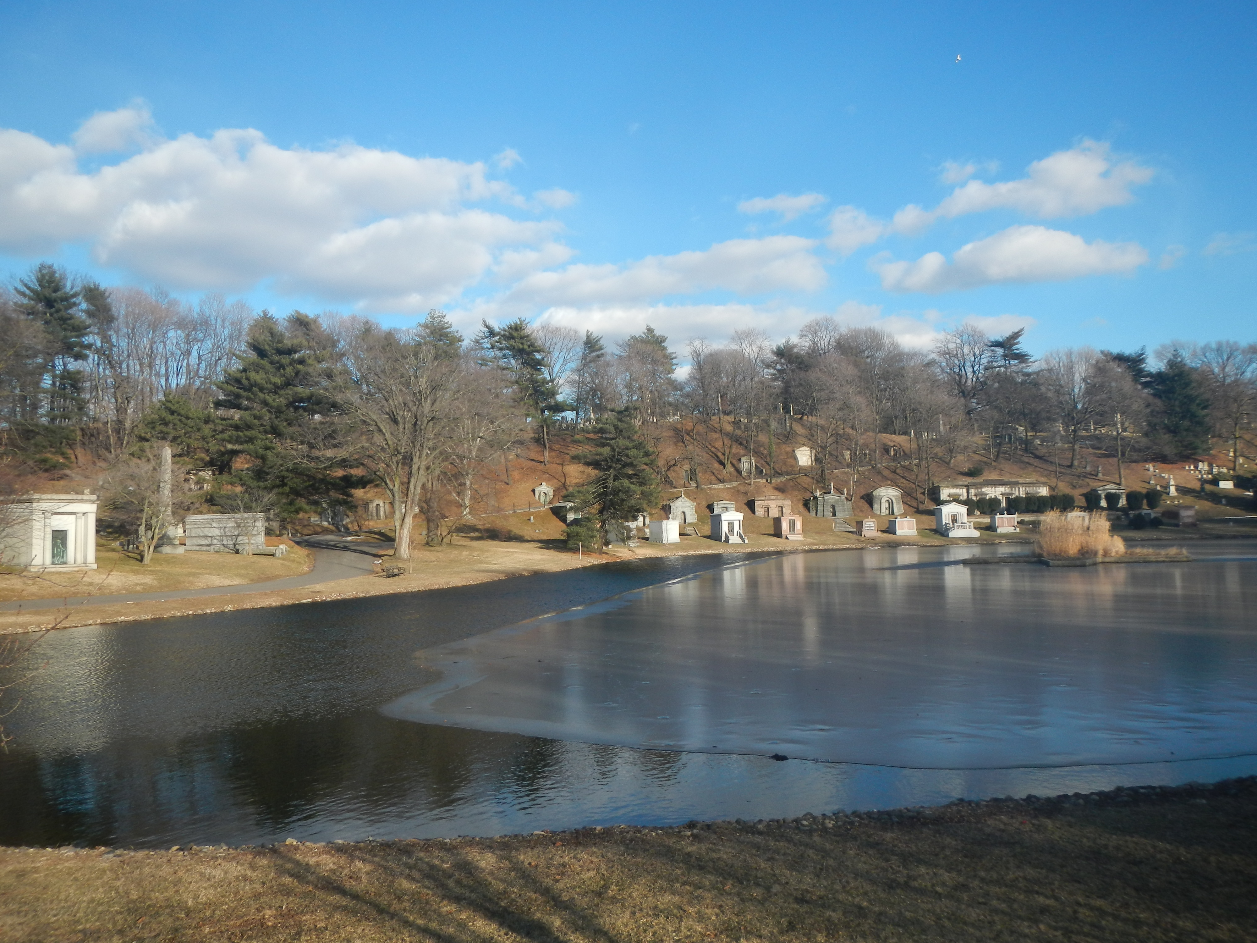 Looking east across Sylvian Water on a sunny winter afternoon.